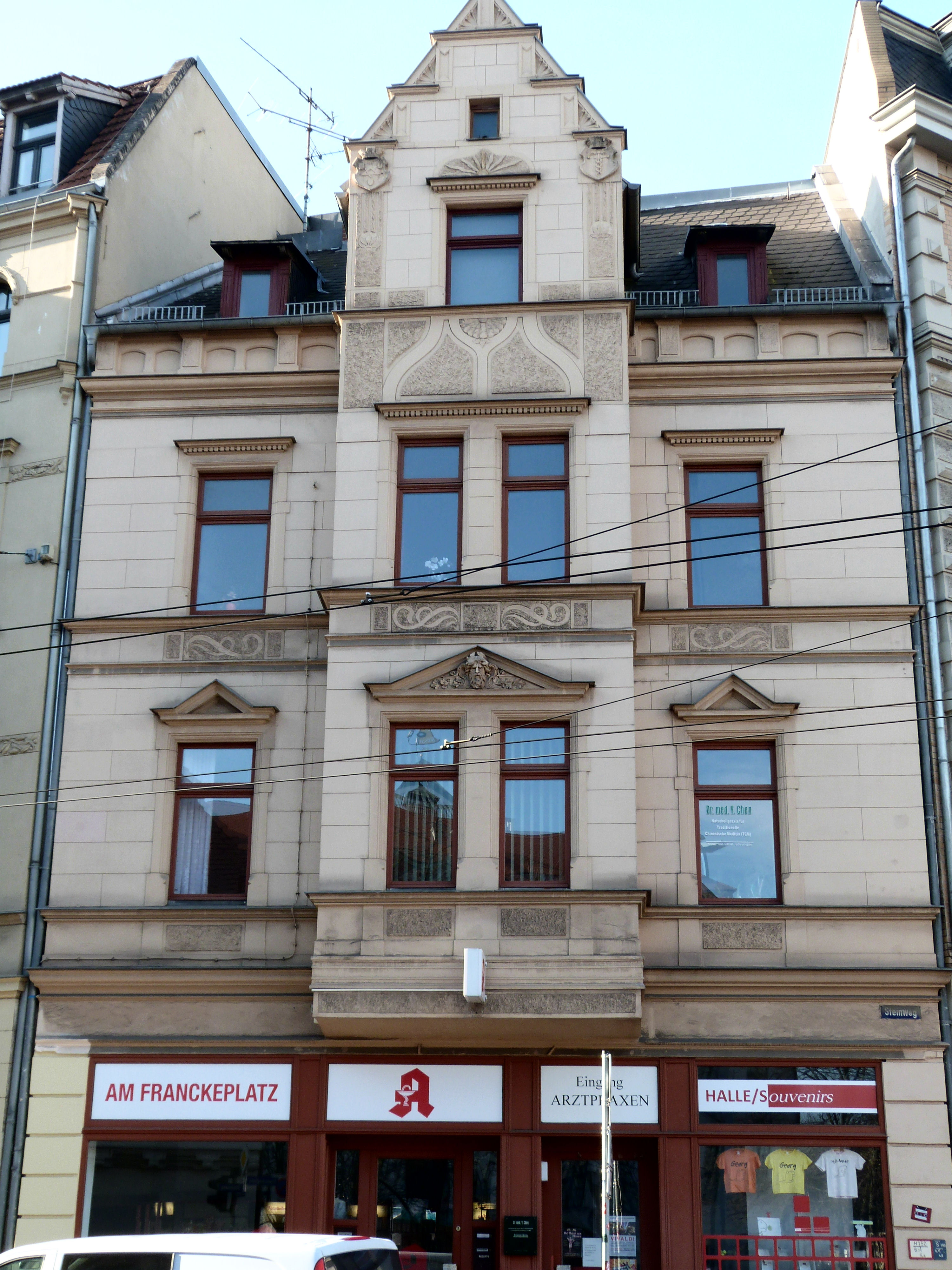 House No. 56 Steinweg in Halle (Saale), Apotheke am Franckeplatz